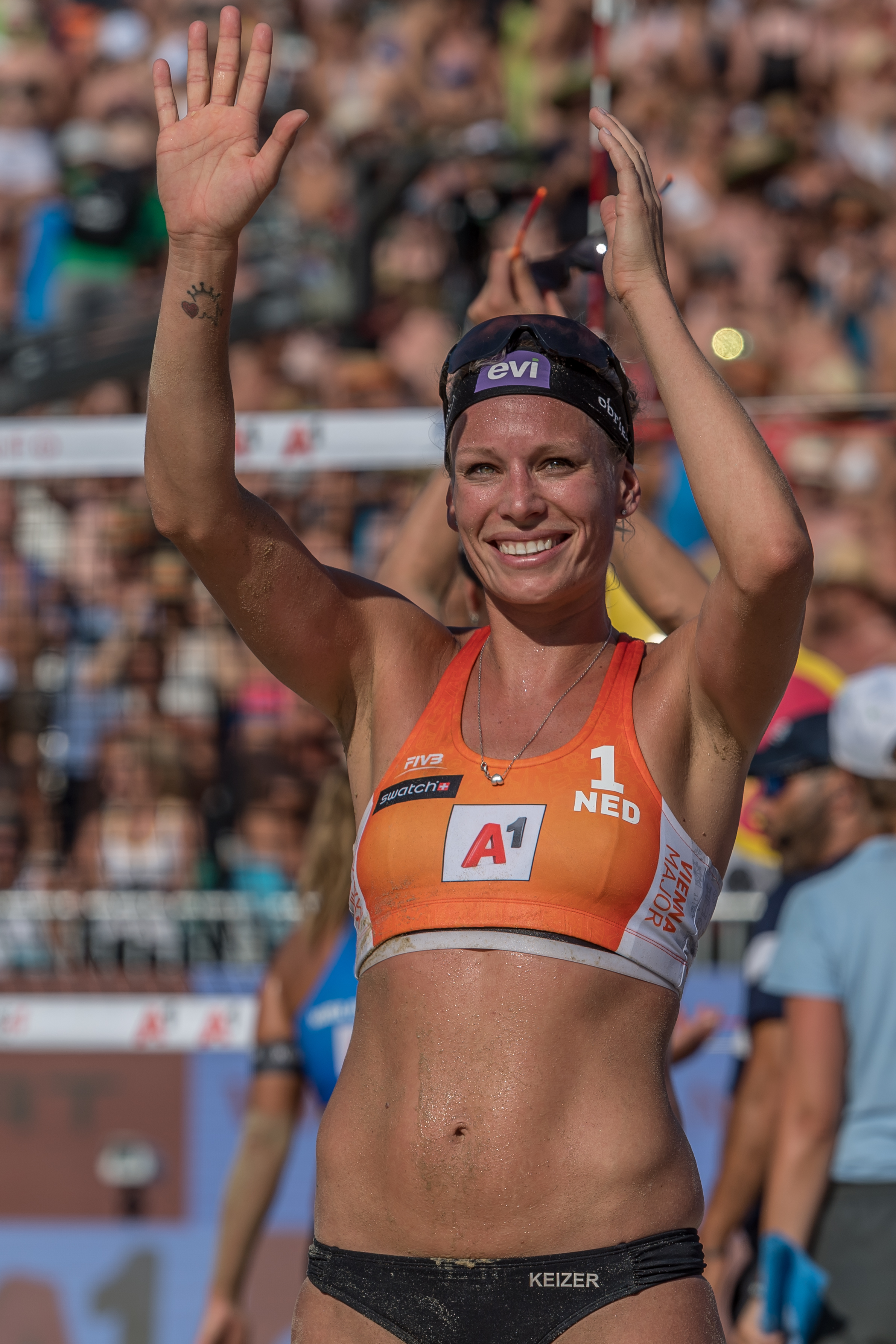 VIENNA, AUSTRIA - AUGUST 04: Sanne Keizer of the Netherlands during the bronze medal match between Carolina "Carol" Solberg Salgado and Maria Antonelli of Brazil and Sanne Keizer and Madelein Meppelink of the Netherlands on day four of the FIVB Beach Volleyball World Tour Major Series Vienna on Danube Island on August 04, 2018 in Vienna, Austria.